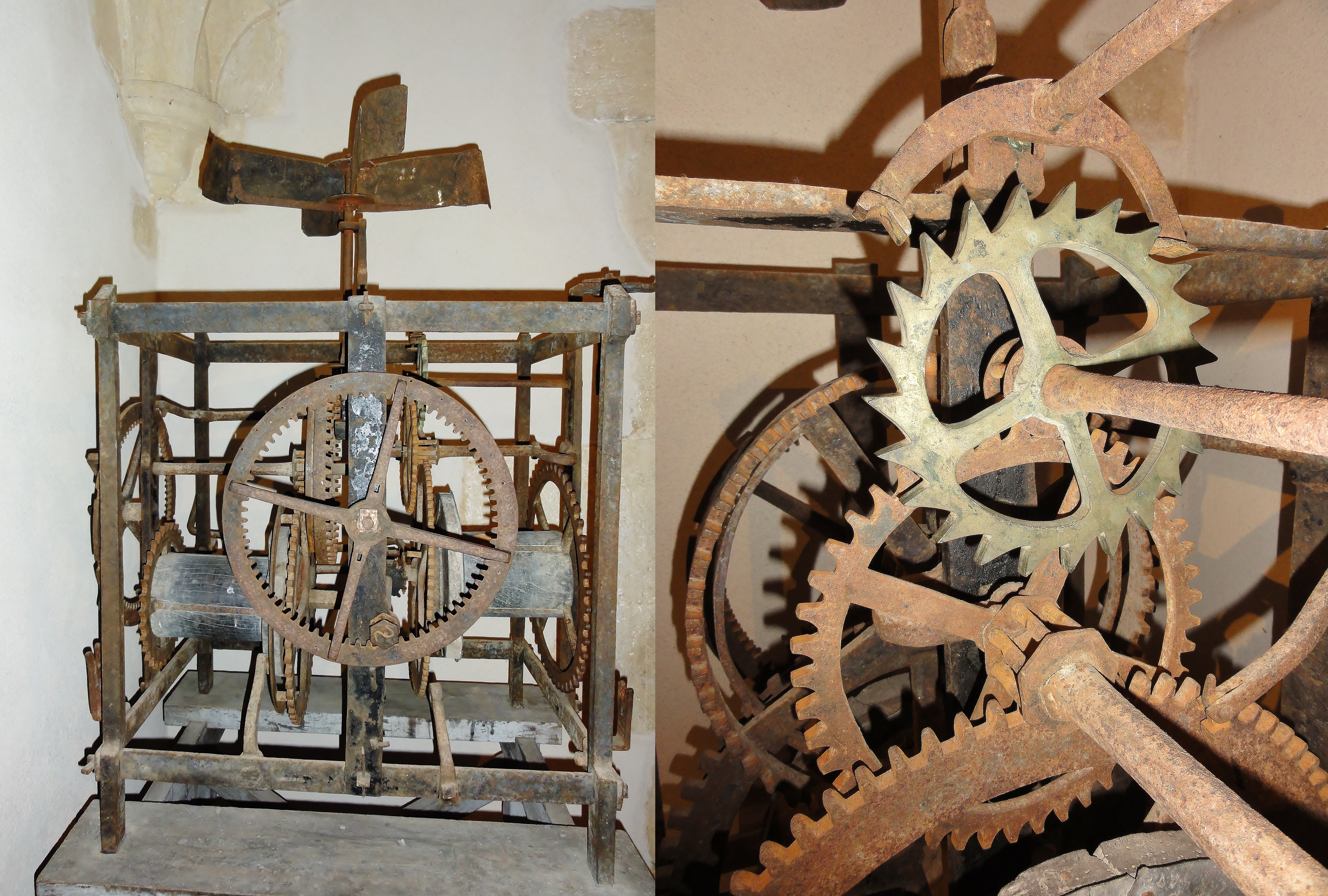 A sixteenth century clock at the registry (Cartório), archives of the Convent of Christ, Tomar, Portugal